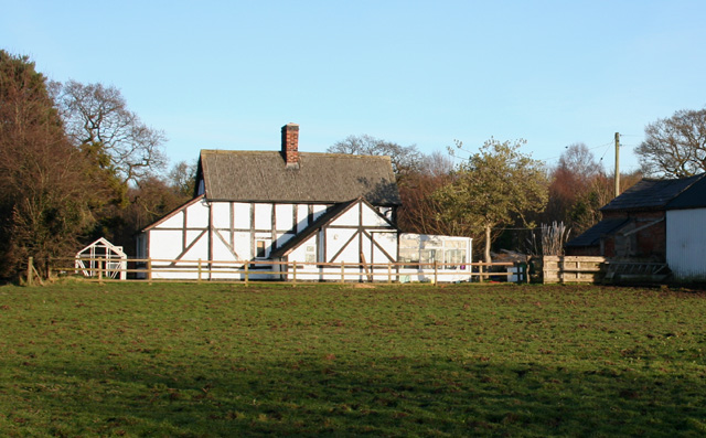 Sparrows Roost, Swanley This black-and-white cottage off Swanley Lane dates from the early 17th century and is grade II listed. View from the Llangollen branch of the Shropshire Union Canal, by Swanley Lock no. 2. For more information